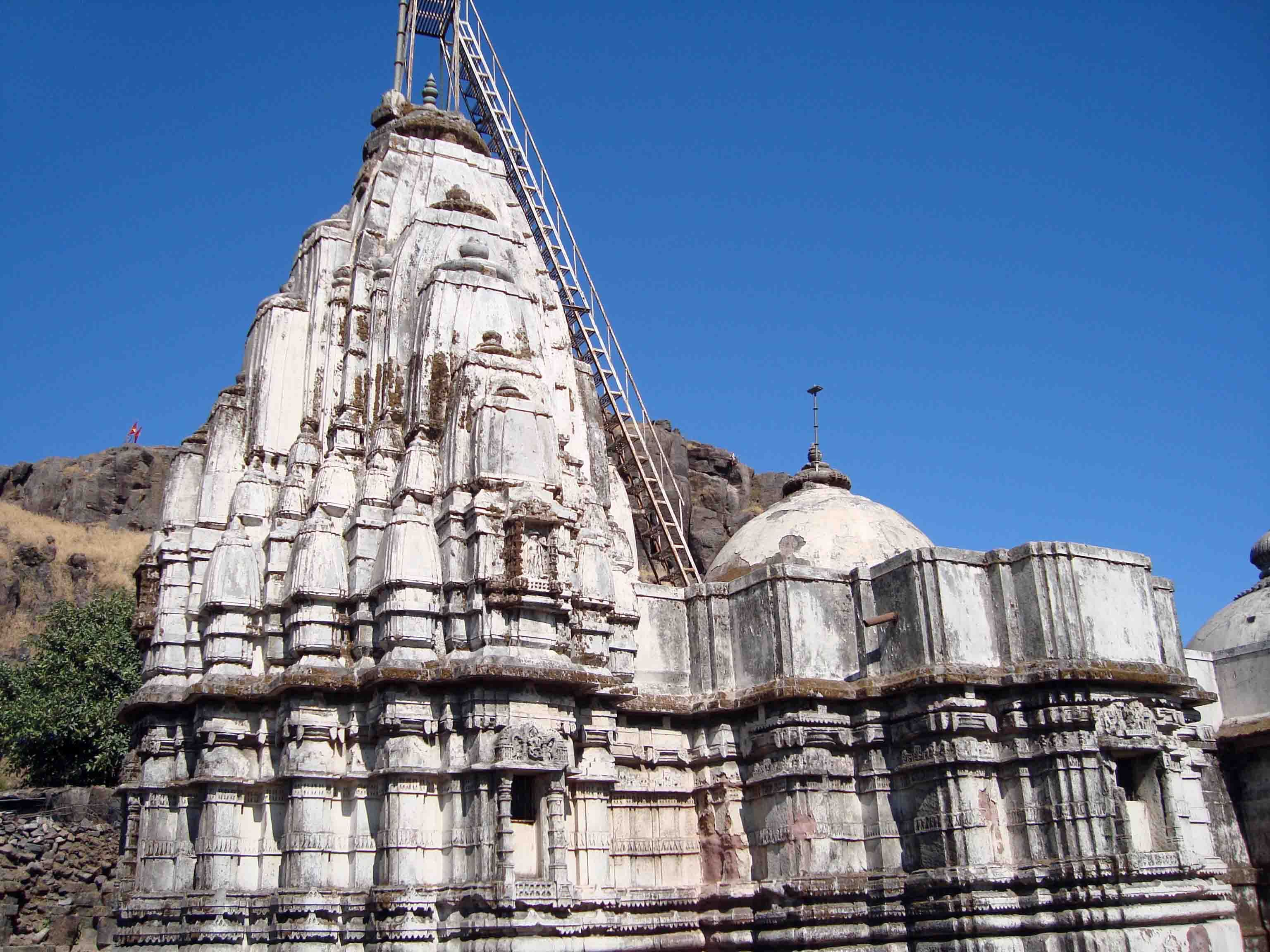 Ruined Hindu temples & Jain temples on the top of Pavagad hills